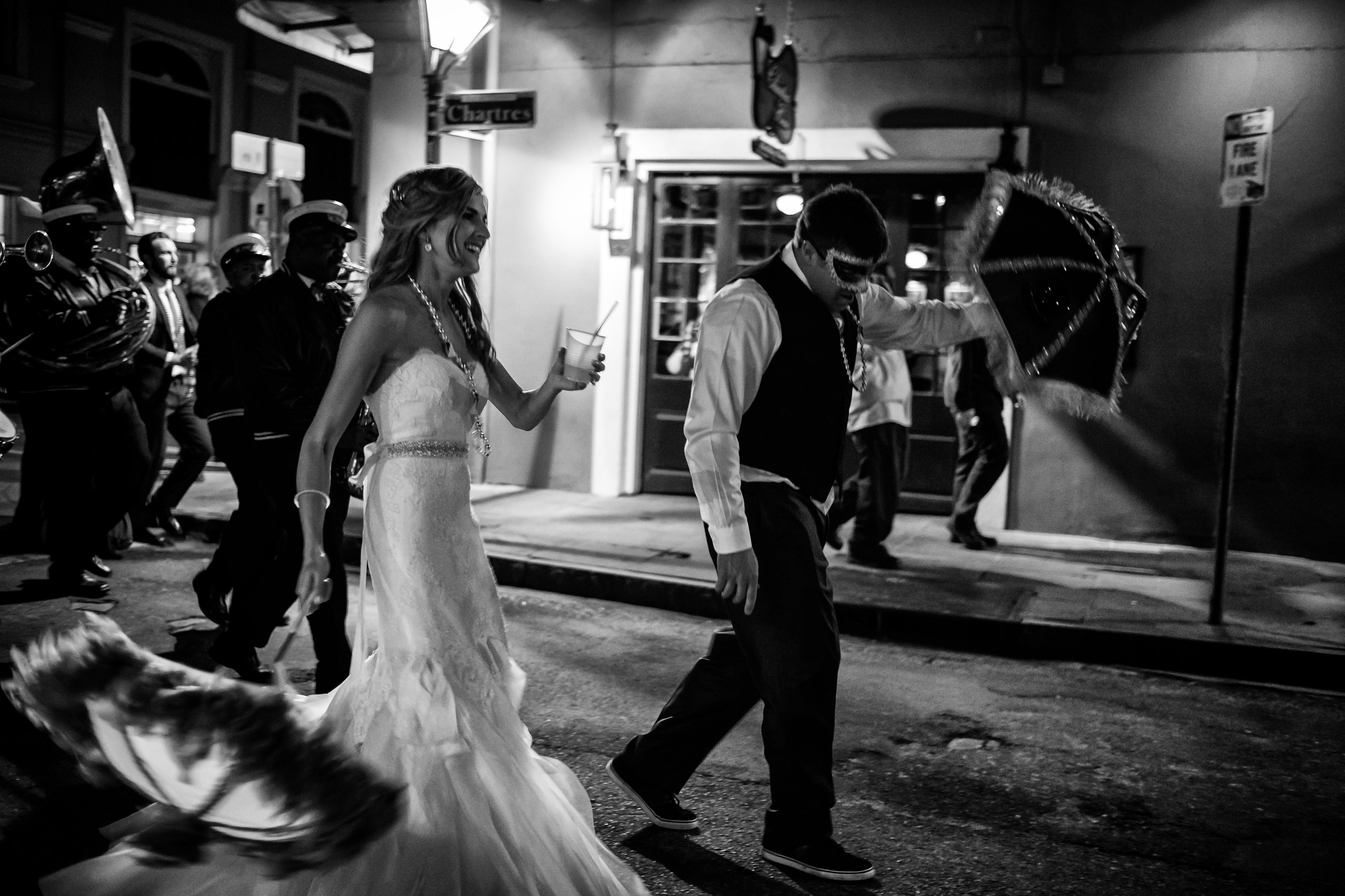 New Orleans Wedding Second Line